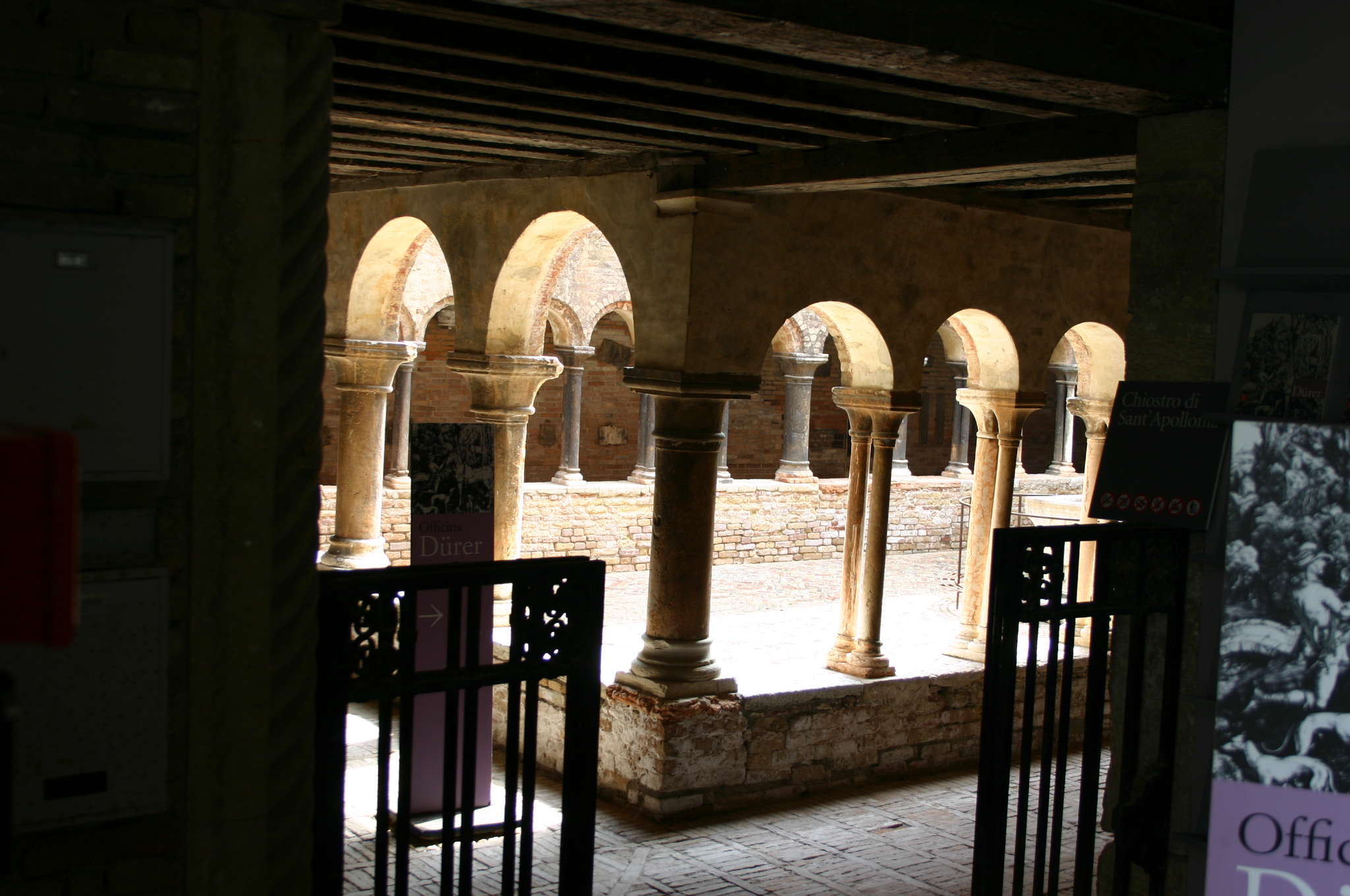 Venice, the Diocesan museum, housed in the former monastery of Sant'Apollonia. Picture by Giovanni Dall'Orto, August 8, 2007.